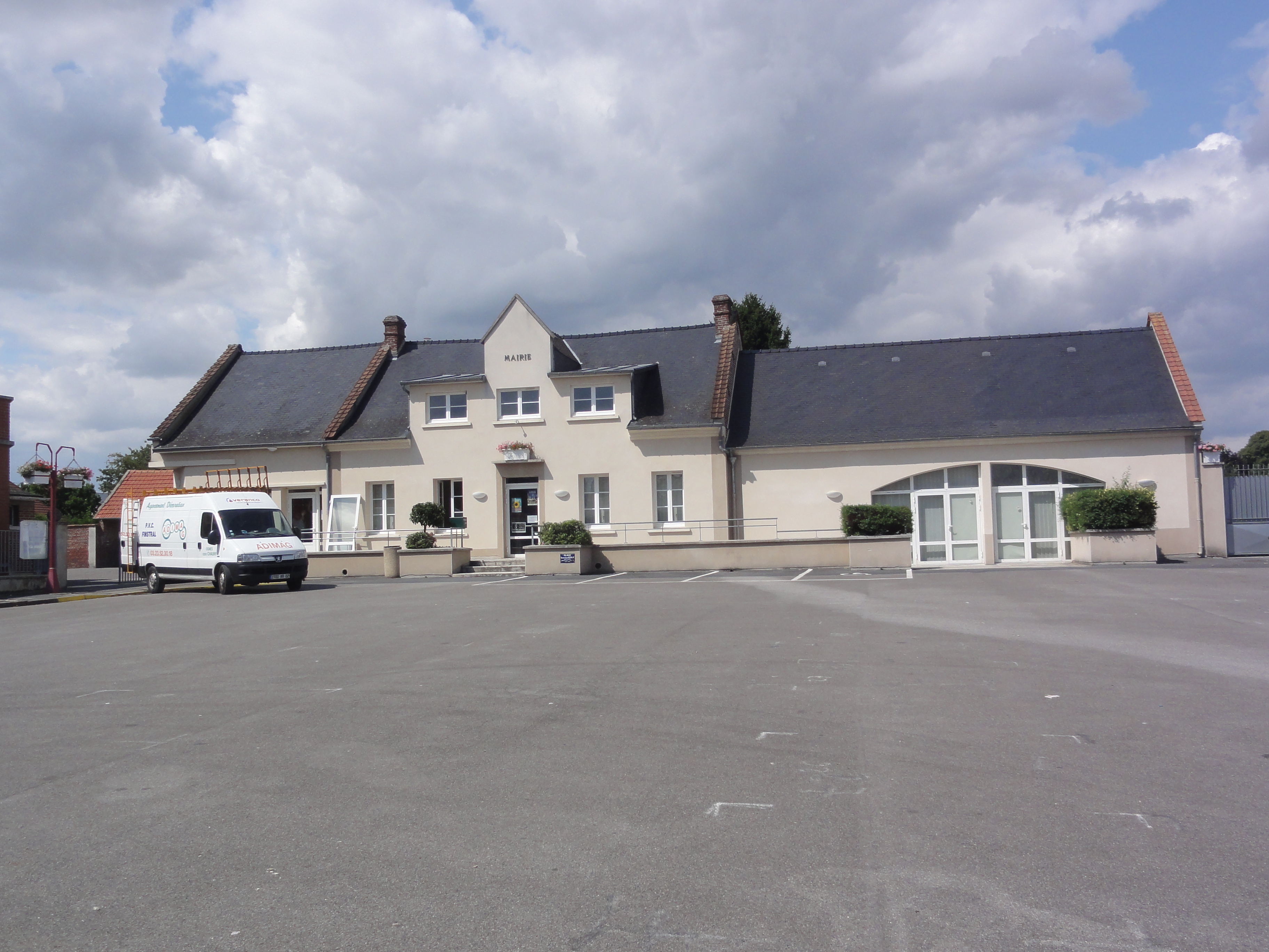 Ognes (Aisne) mairie